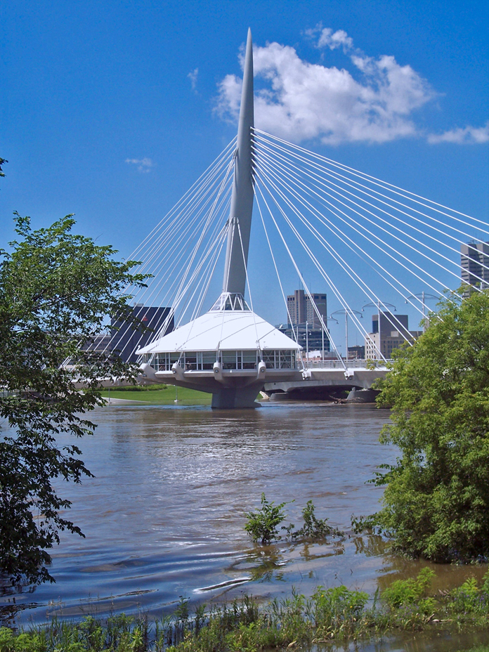 Self made